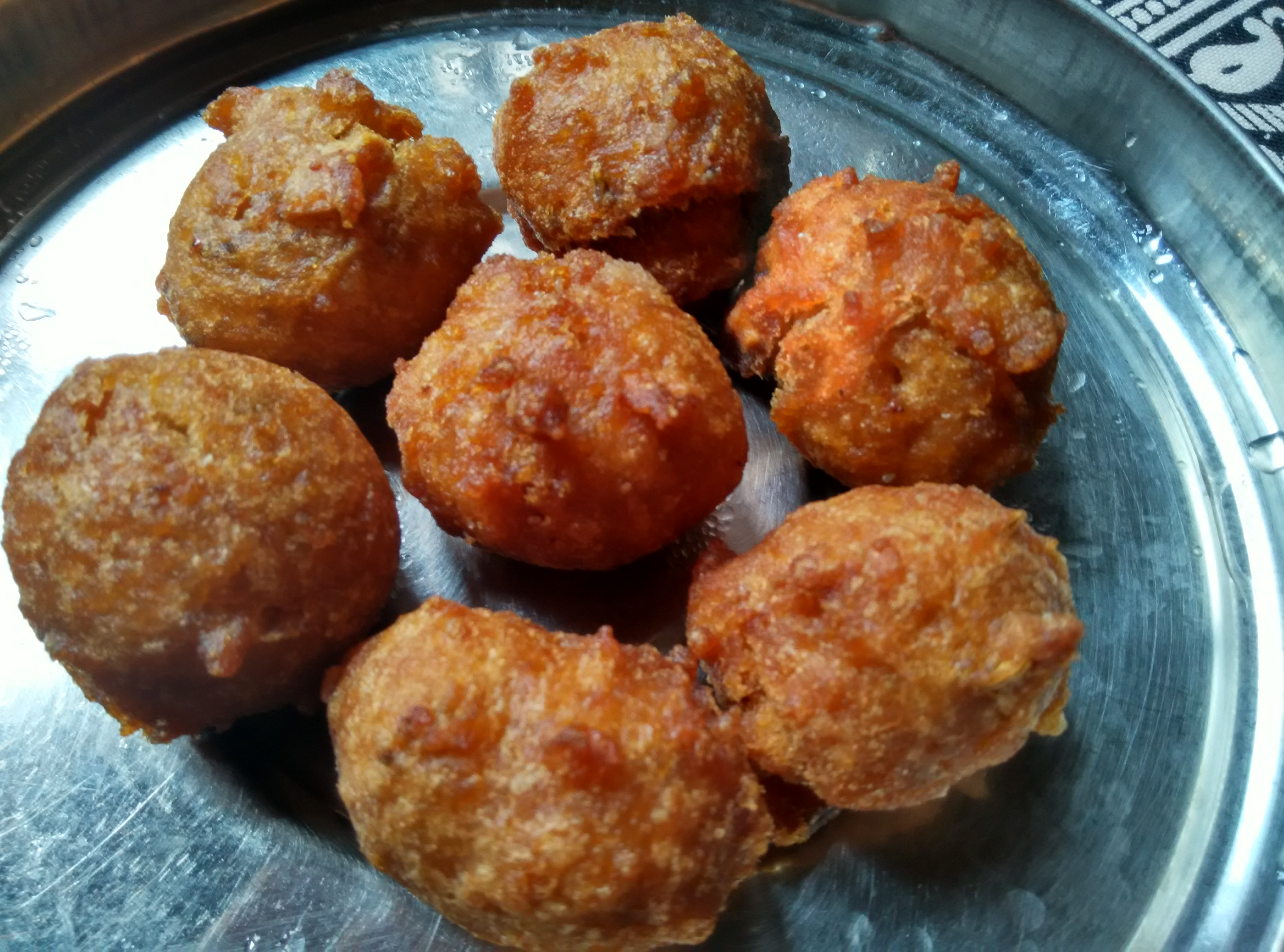 Golden fried blobs made with a batter of flour and brown sugar.